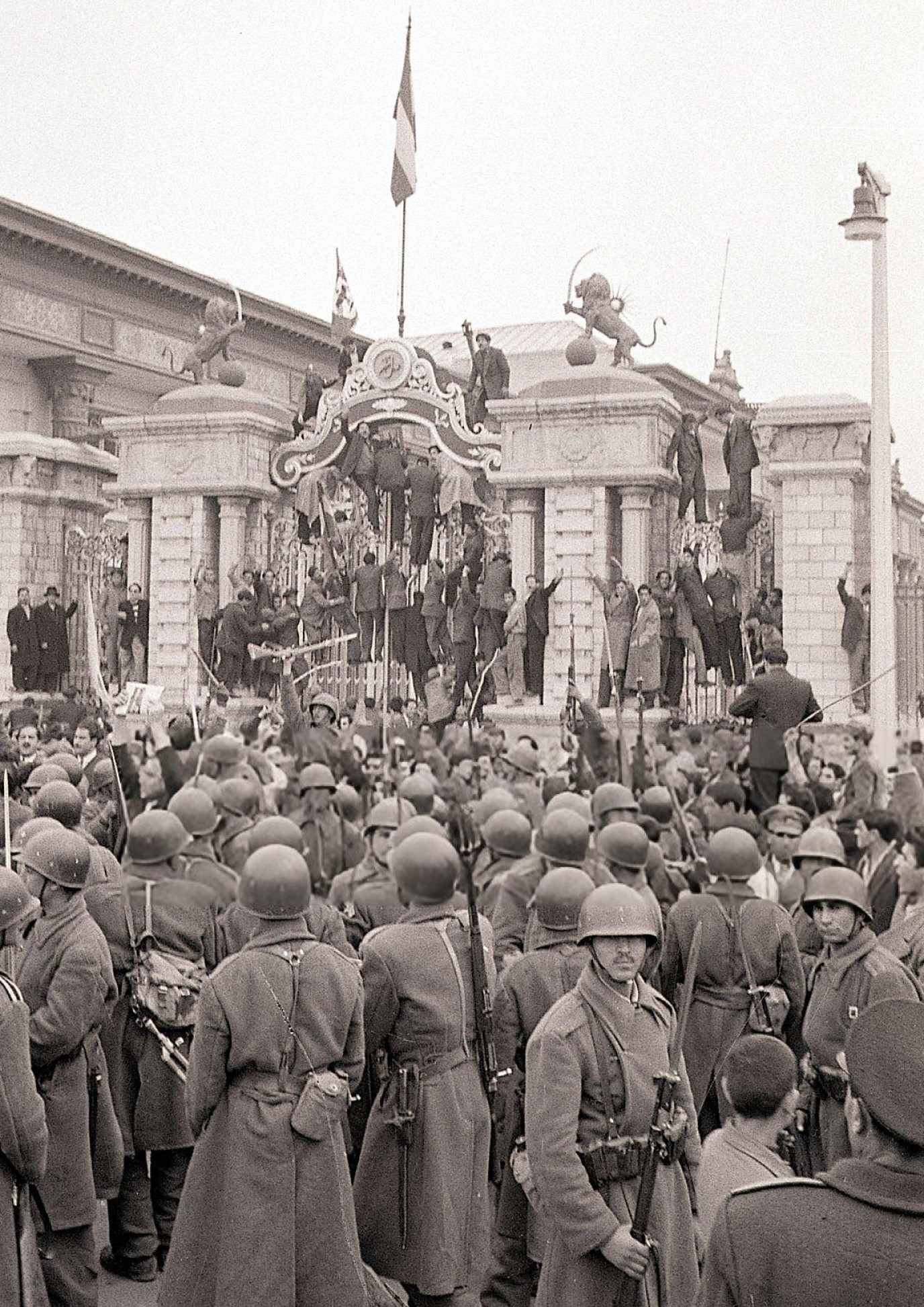 Iranian soldiers surround the Parliament building in Tehran. The name of the file presumes the date to be August 19, 1953, the date of coup against Prime Minister Mosaddegh. However, the soldiers are all wearing winter coats which would not have been issued during August, the hottest summer month in Tehran.